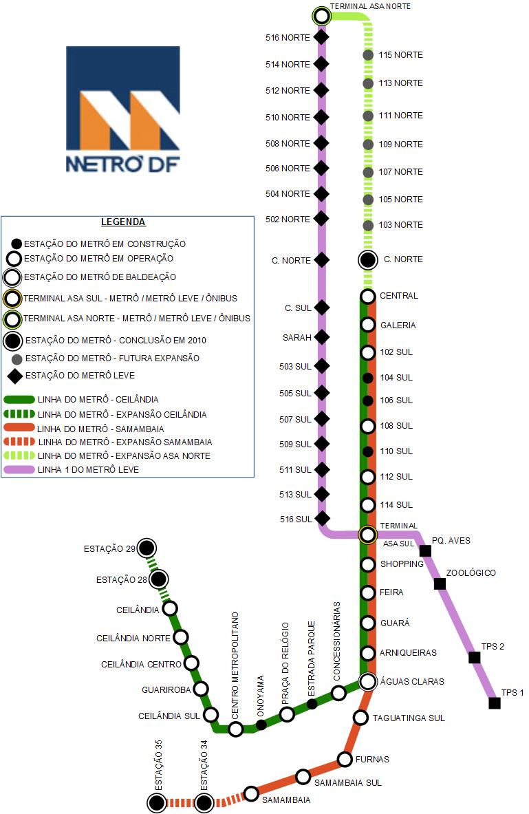 Subway of the Federal District, in Brazil.